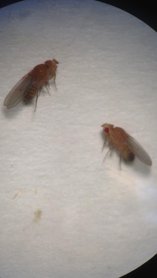 The image represents the Eyeless stock mutants provided to me by the Lawrence University stock room staff. The image was taken by directing an iphone5 into the eyepiece of a light microscope. Two Drosophila melanogaster, with Eyeless mutation, are shown clearly representing the variable expressivity of the Eyeless mutation.